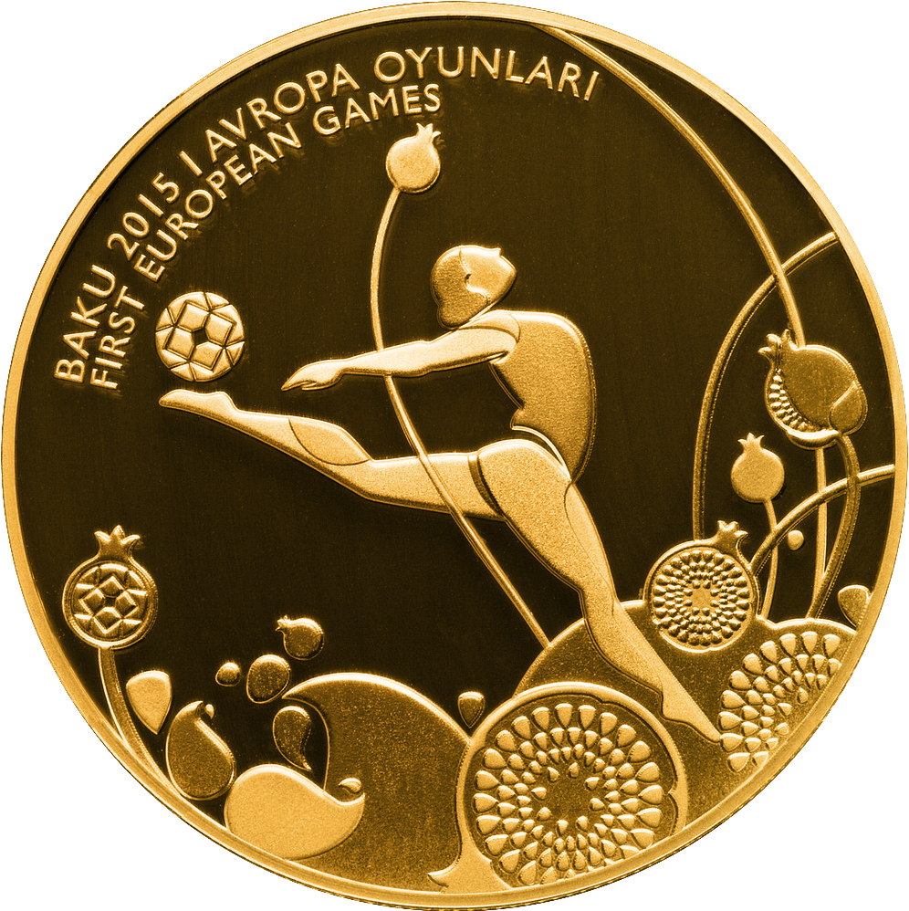 Commemorative coin of Azerbaijan